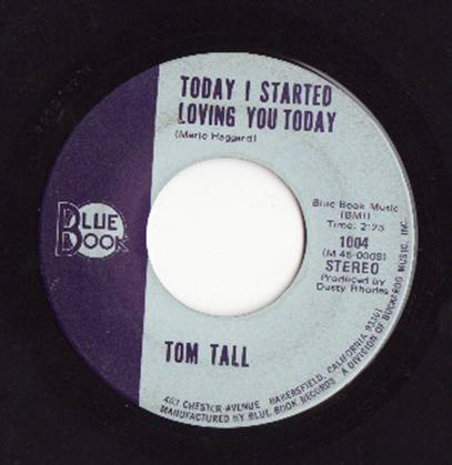 Today I Started Loving You Today by Tom Tall, Blue Book [year unknown].